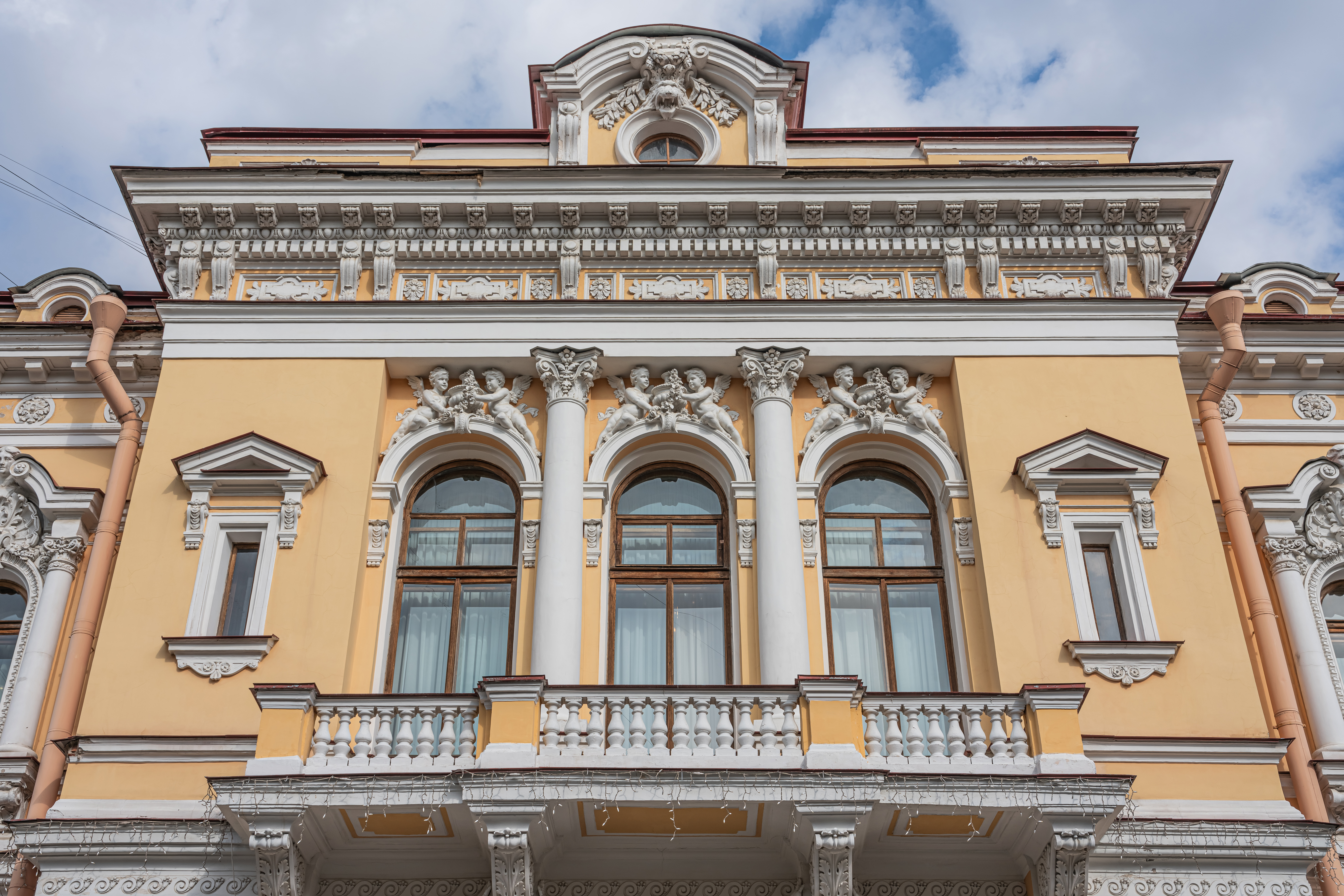 Building at Furshtatskaya Street 58 (Spiridonov Mansion) in Saint Petersburg, Russia